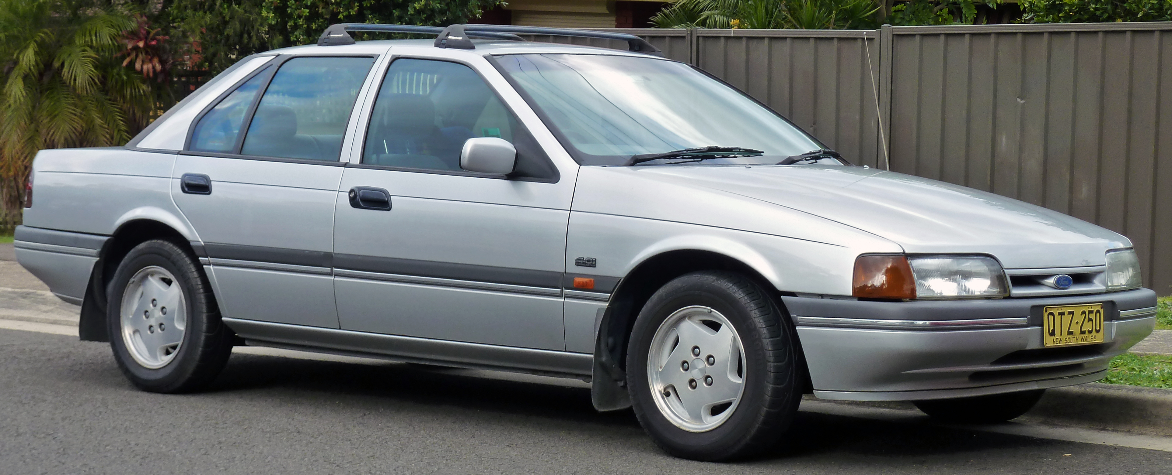 1993 Ford EB II Fairmont sedan. Photographed in Gymea, New South Wales, Australia.